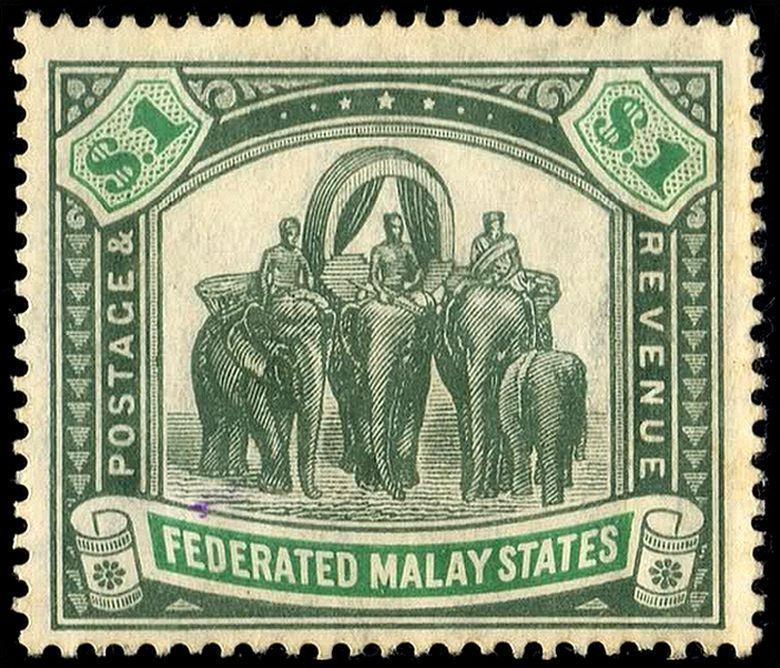 Image of malaya states stamp, depicting elephants and riders